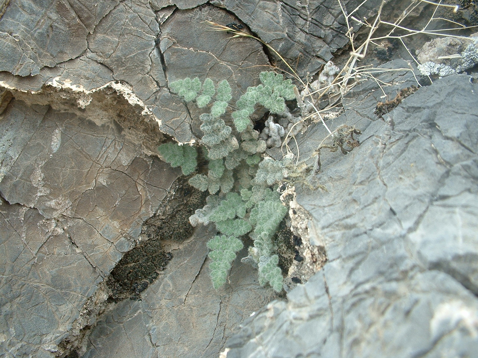 Cheilanthes parryi — Parry’s lip fern. This is a photo I took at Death Valley, Death Valley National Park, California.